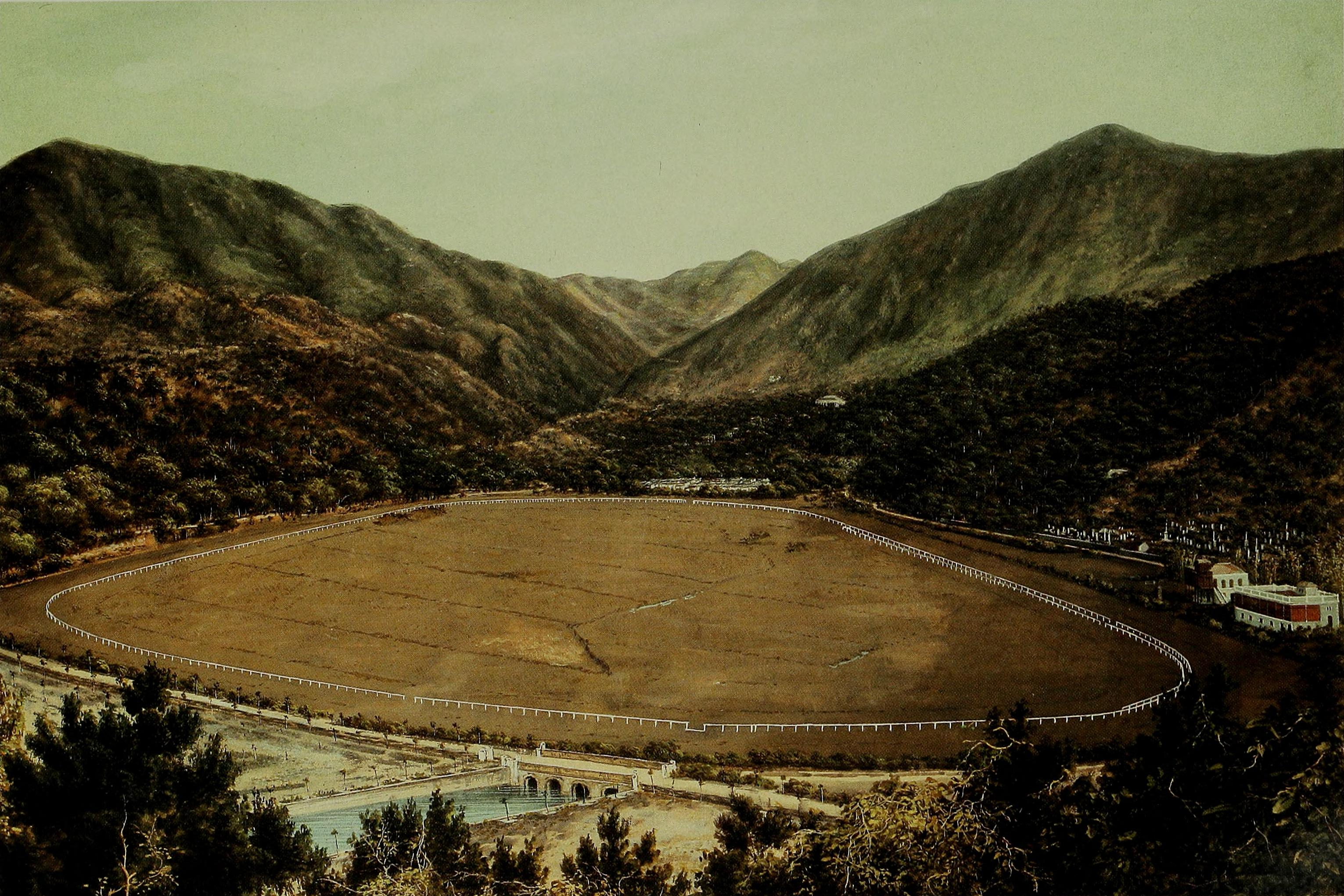 Happy Valley Racecourse and the colonial cemetery in Hong Kong.